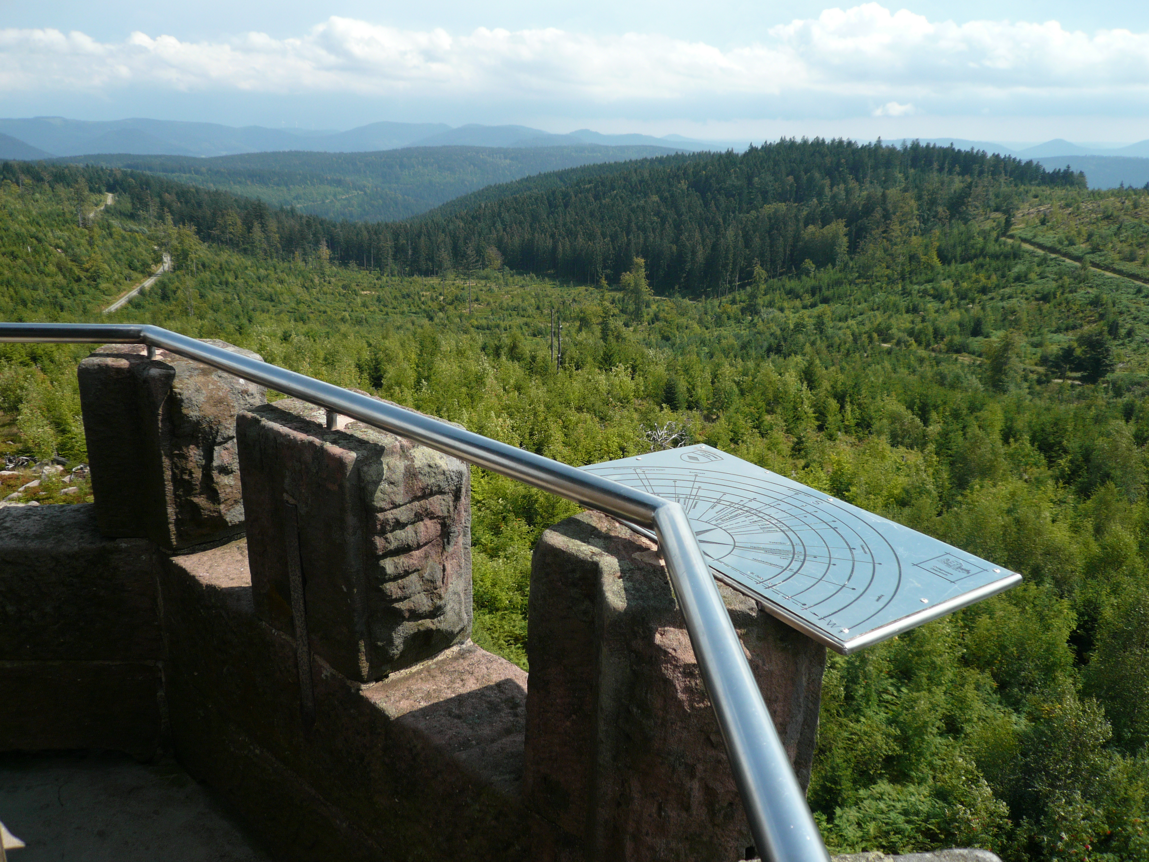 View from Moosturm, Black forest